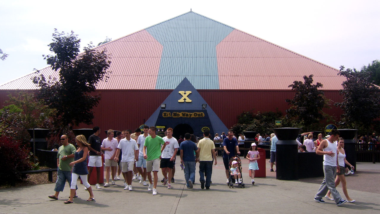 X:\ No Way Out at Thorpe Park. Taken June 2006